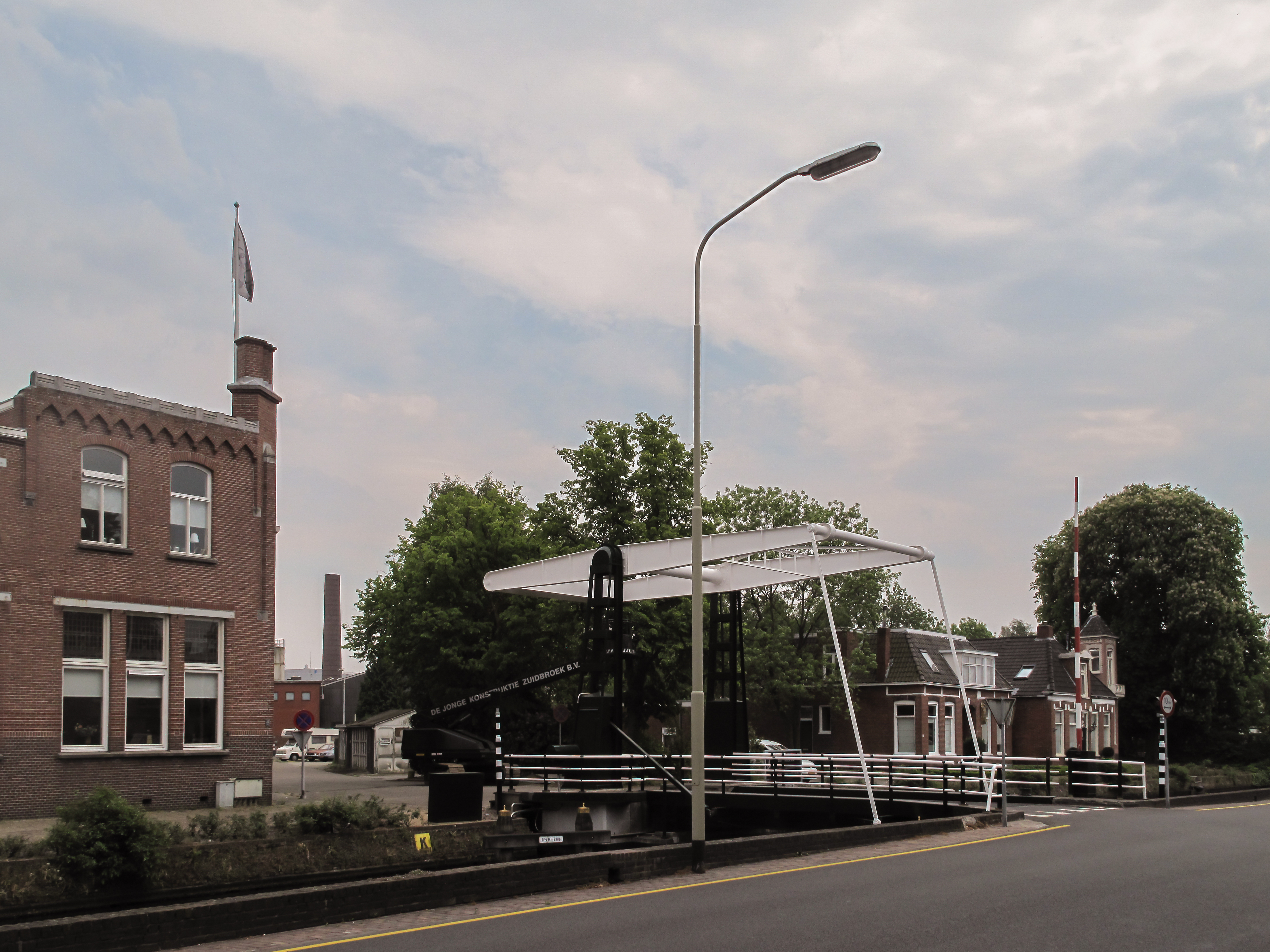 Veendam, drawbridge